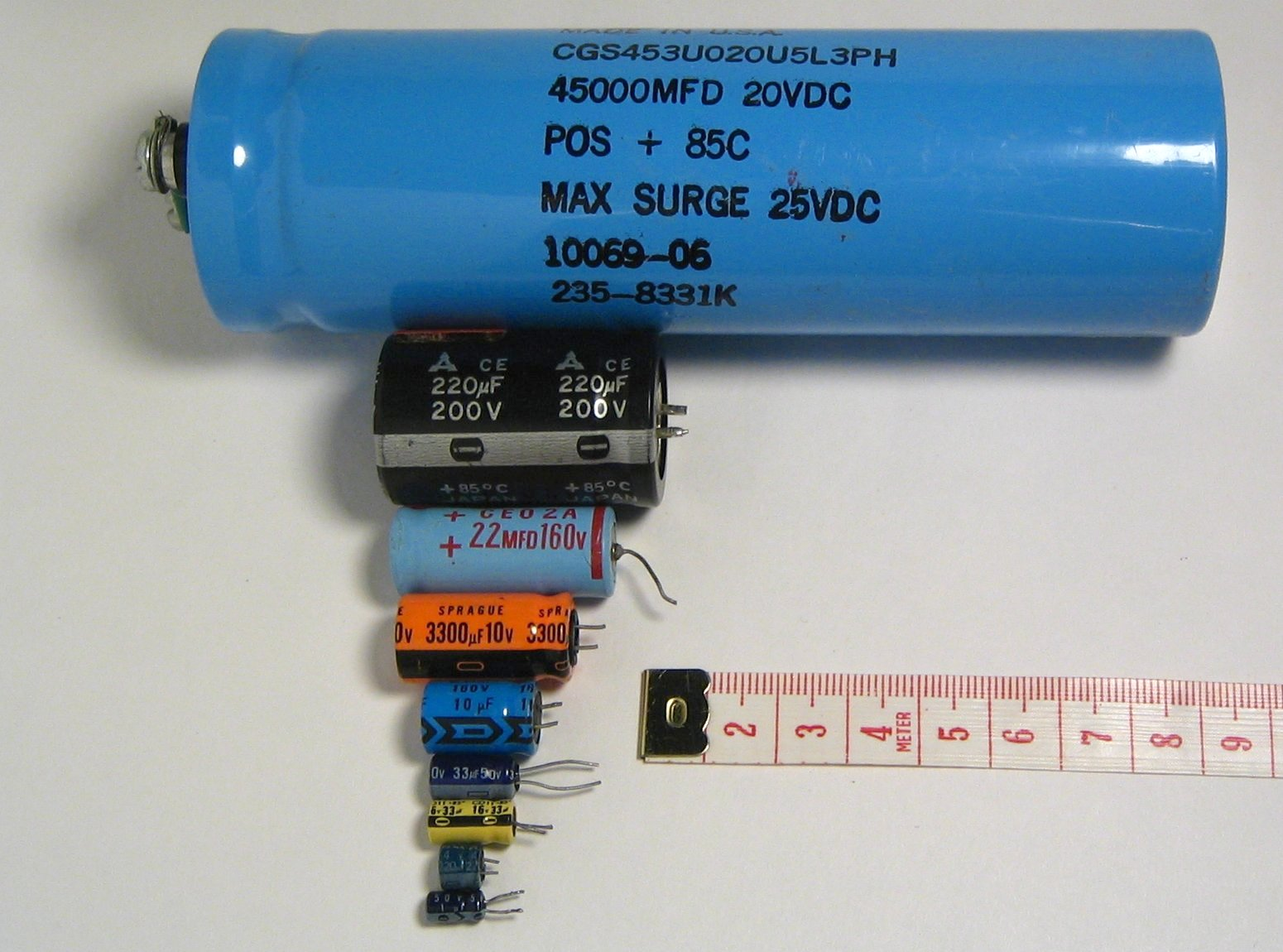 Electrolytic capacitors of all sizes.